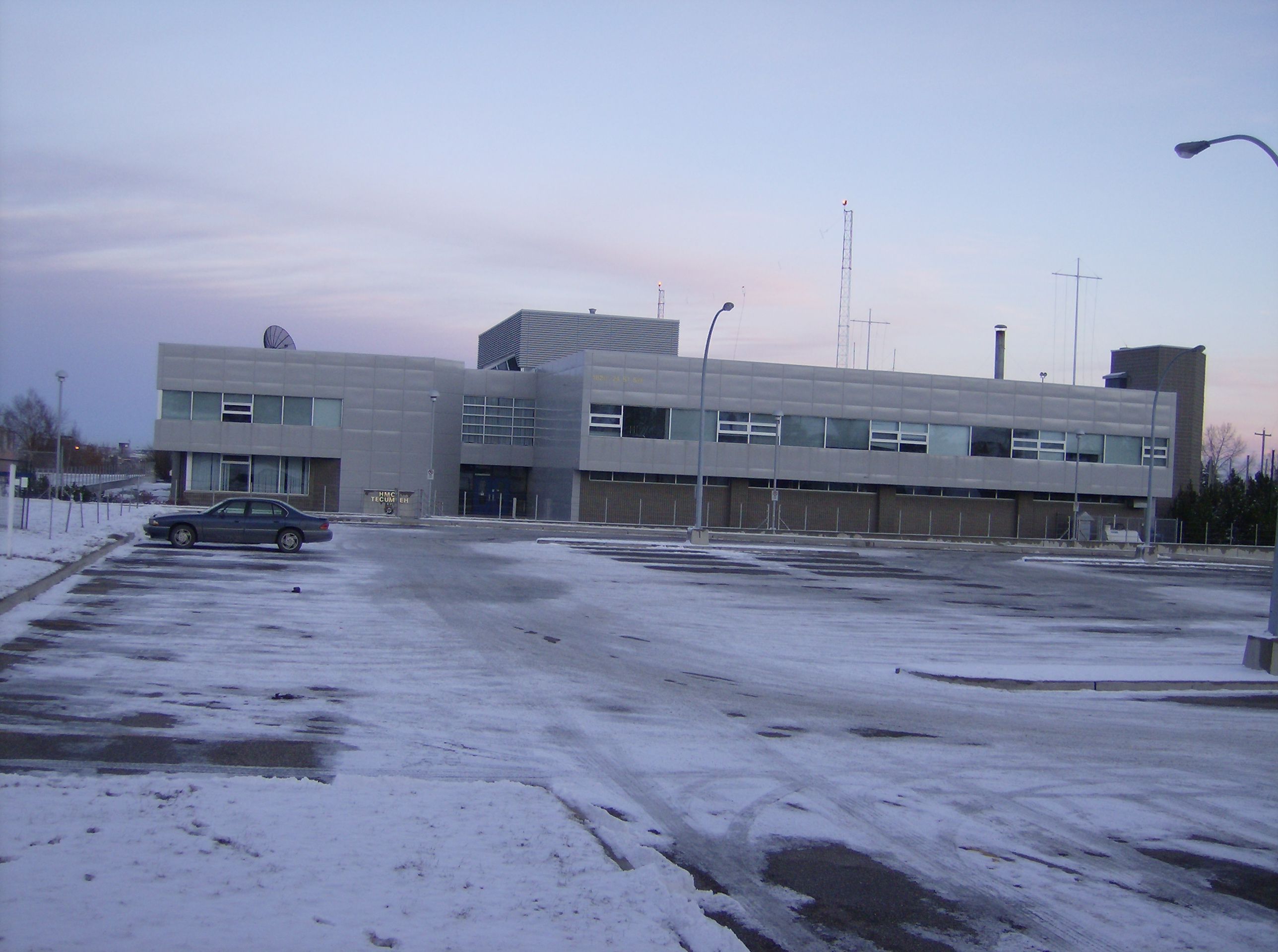 HMCS Tecumseh is a unit of the Canadian Forces Naval Reserve based in Calgary, Alberta